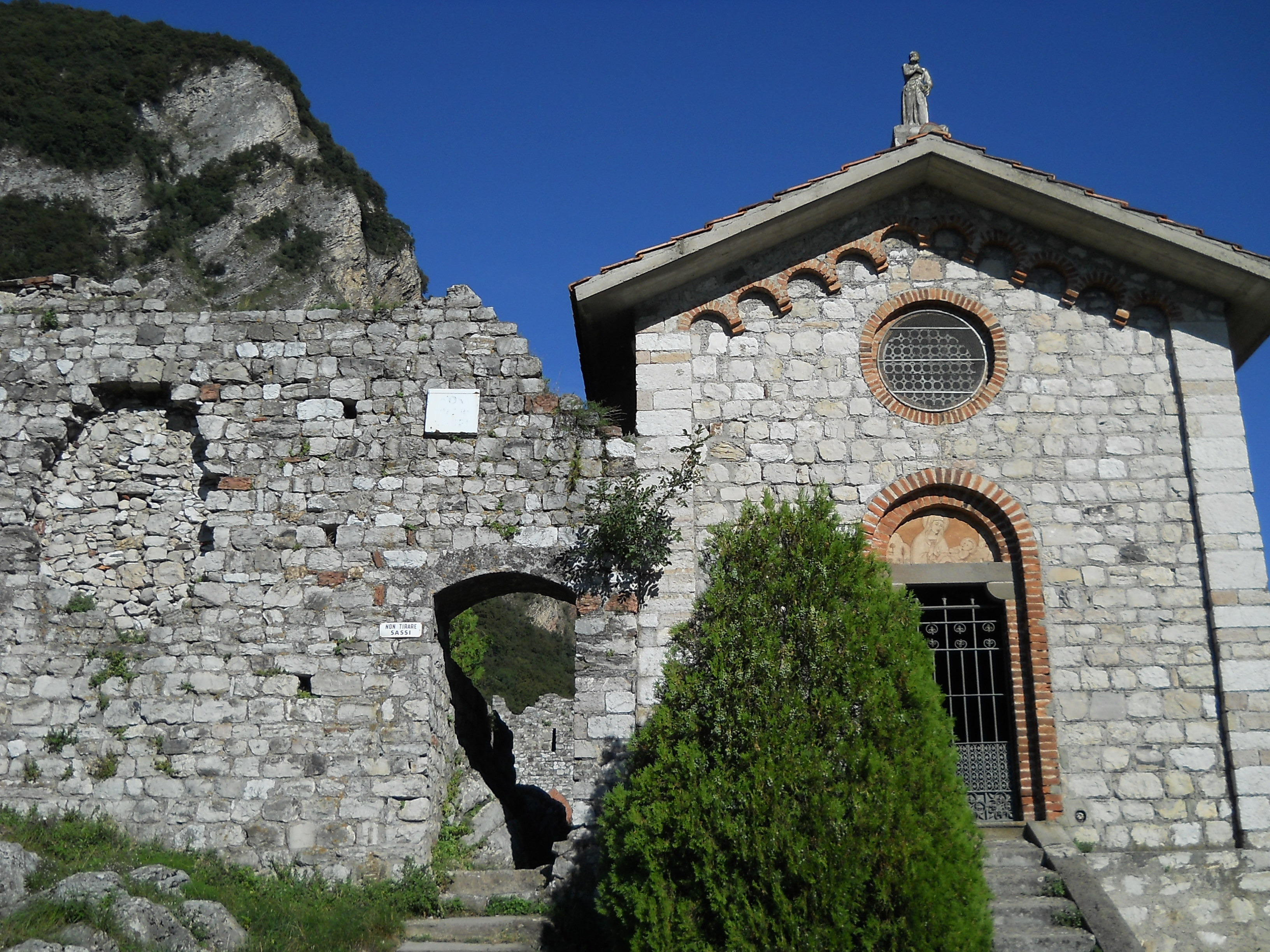 Entrance to the Castle of Innominato and chapel of Sant'Ambrogio alla Rocca, Sanctuary of Valletta, Somasca, Vercurago, Lecco, Italy